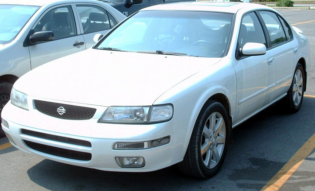 1995-1996 Nissan Maxima photographed in Montreal, Quebec, Canada.